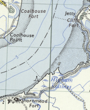 Map of the area of Cliffe, Coalhouse and Shornmead Forts. Edited extract from Ordnance Survey One-inch, Seventh Series, 1952-1961